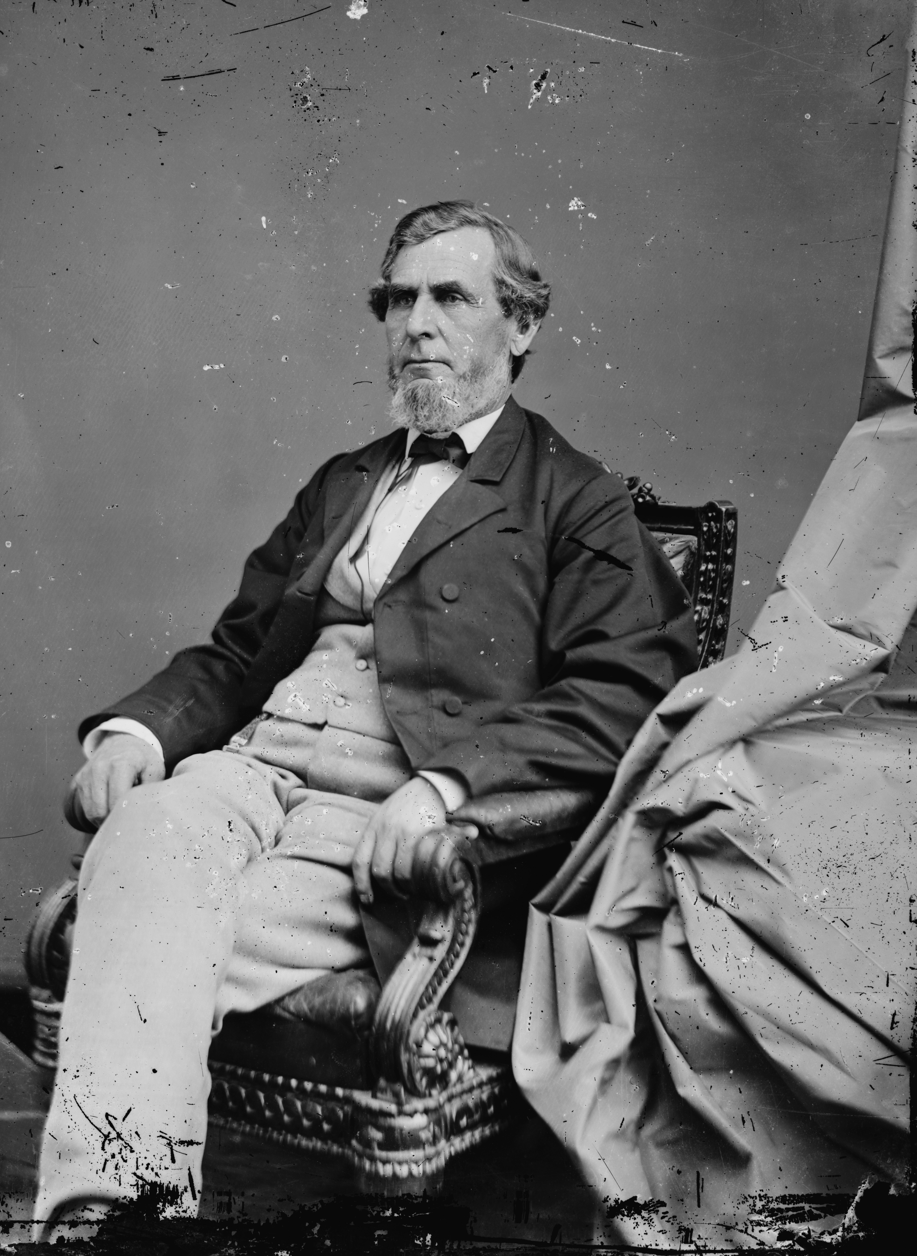 Hon. Columbus Delano of Ohio.